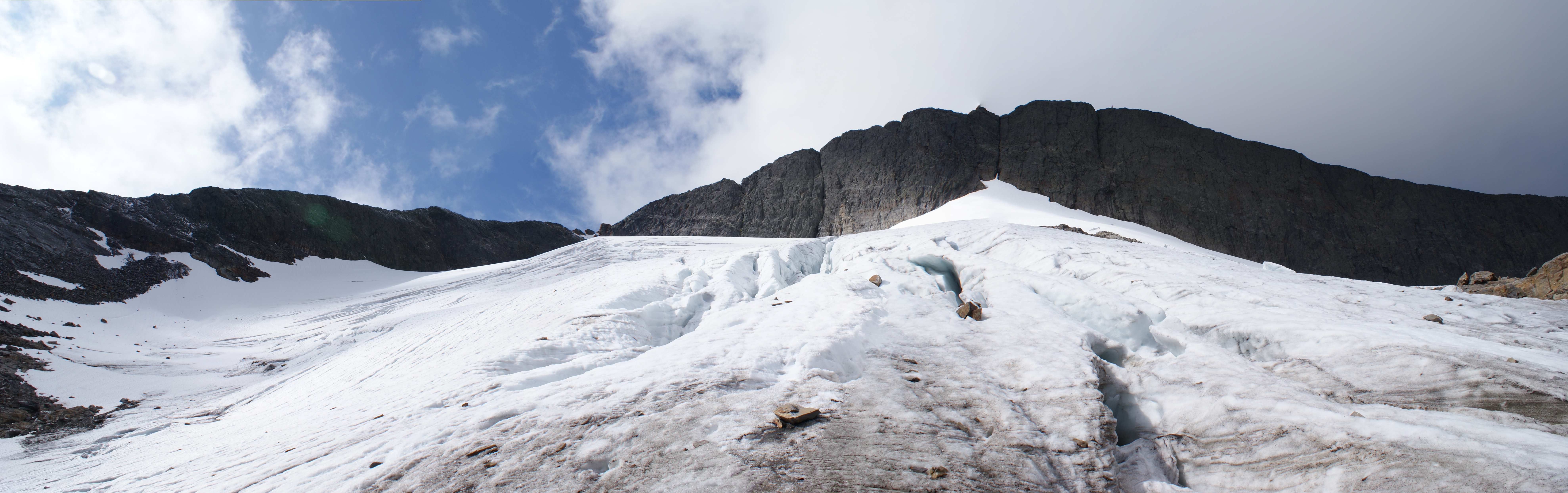 Glacier at Helags mountain.